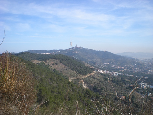 Collserola view from Molins de Rei.